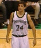 Minnesota Timberwolves basketball player Richie Frahm during a 2005 preseason game.